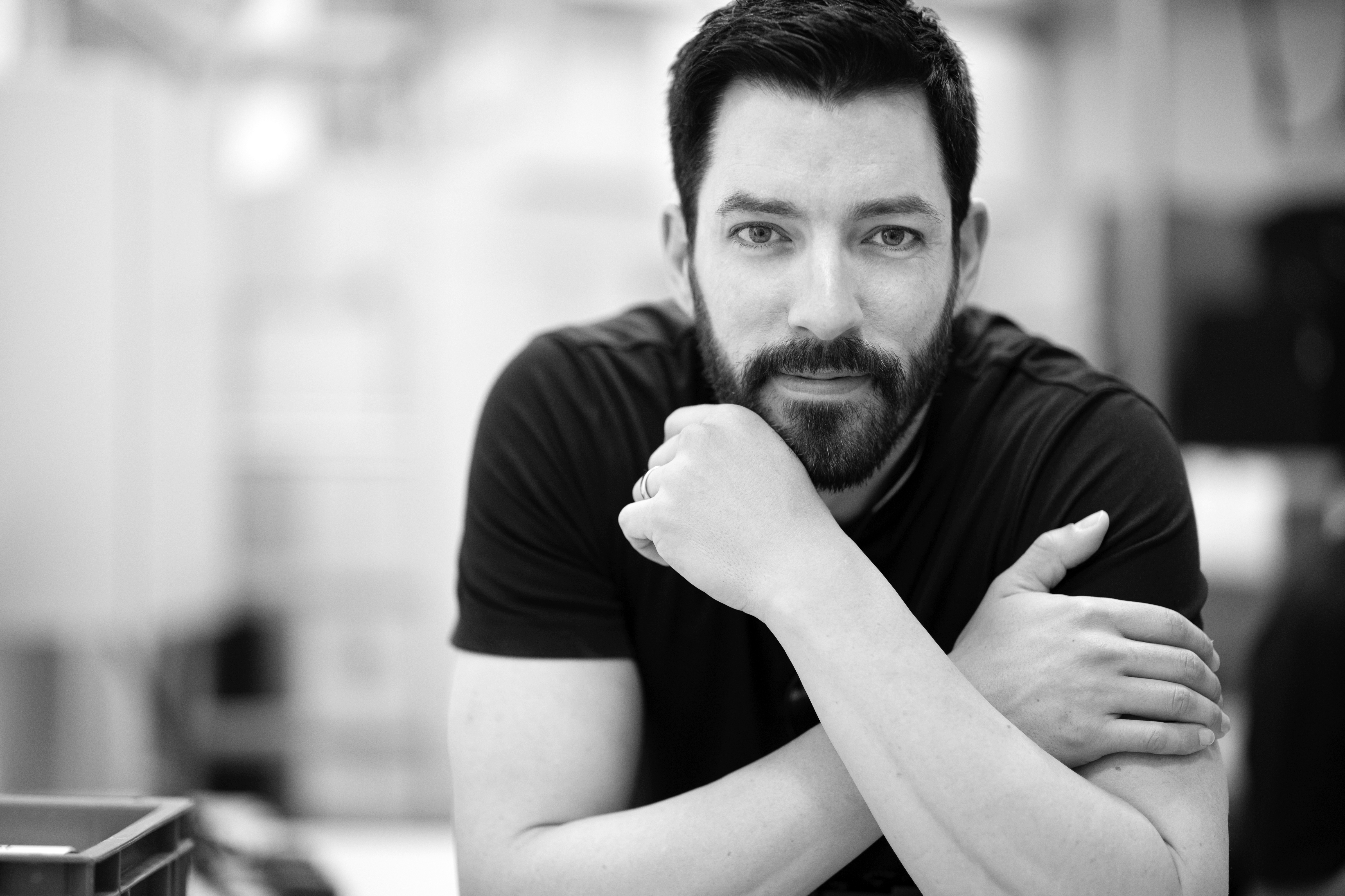 Drew Scott in 2019 at Leica Camera by Christopher Michel